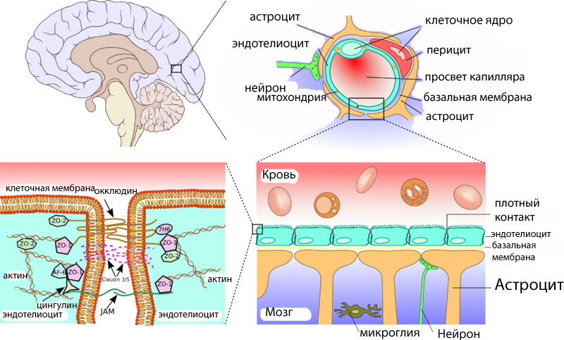 This file was taken from german wikipedia article (Blut-Hirn-Schranke) which was made by user Kuebi = Armin Kübelbeck under licence Creative Commons Attribution 3.0 Unported. I changed german words in russian with Photoshop